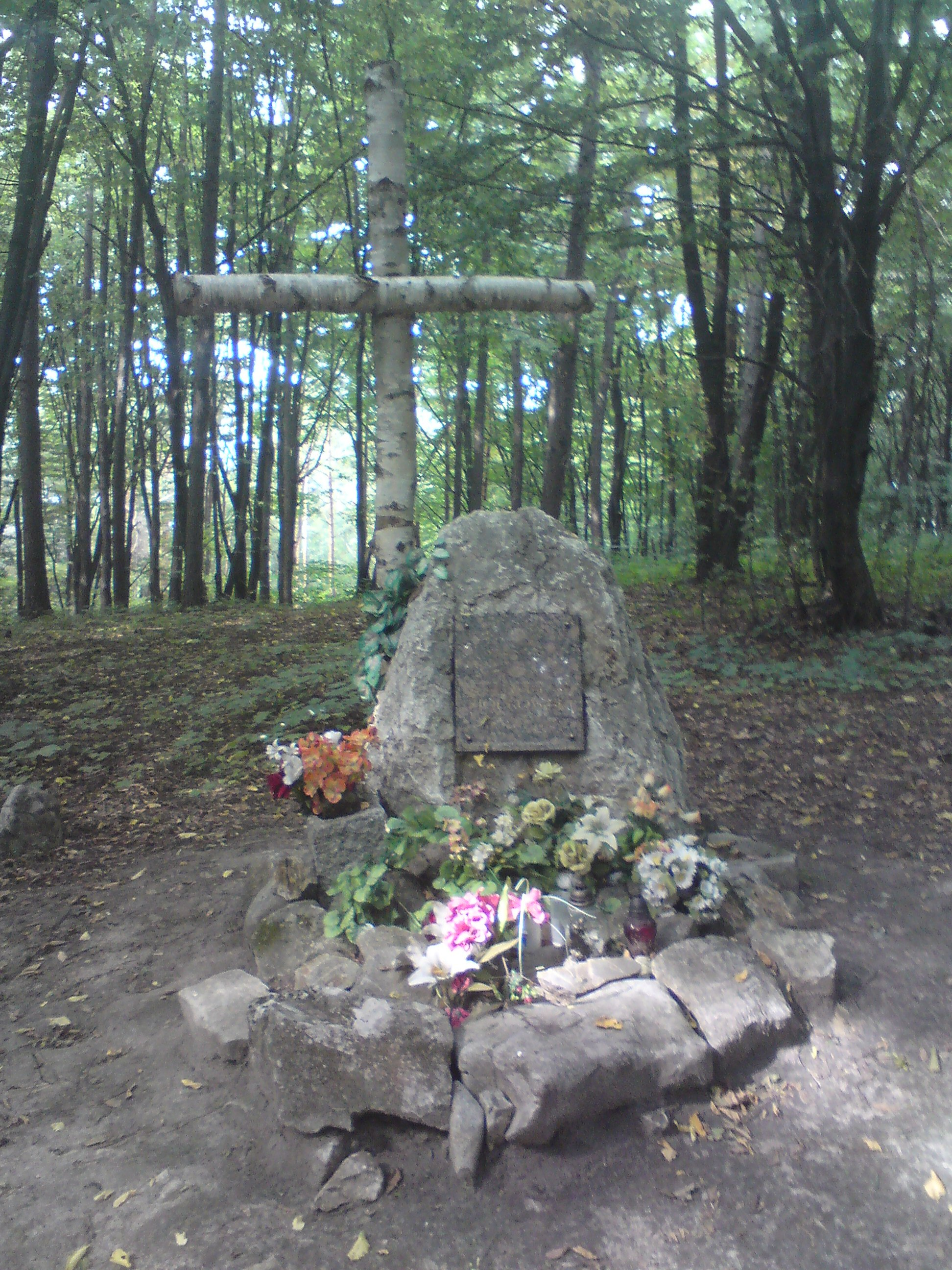 Symbolic grave of Stanisław Ziółkowski